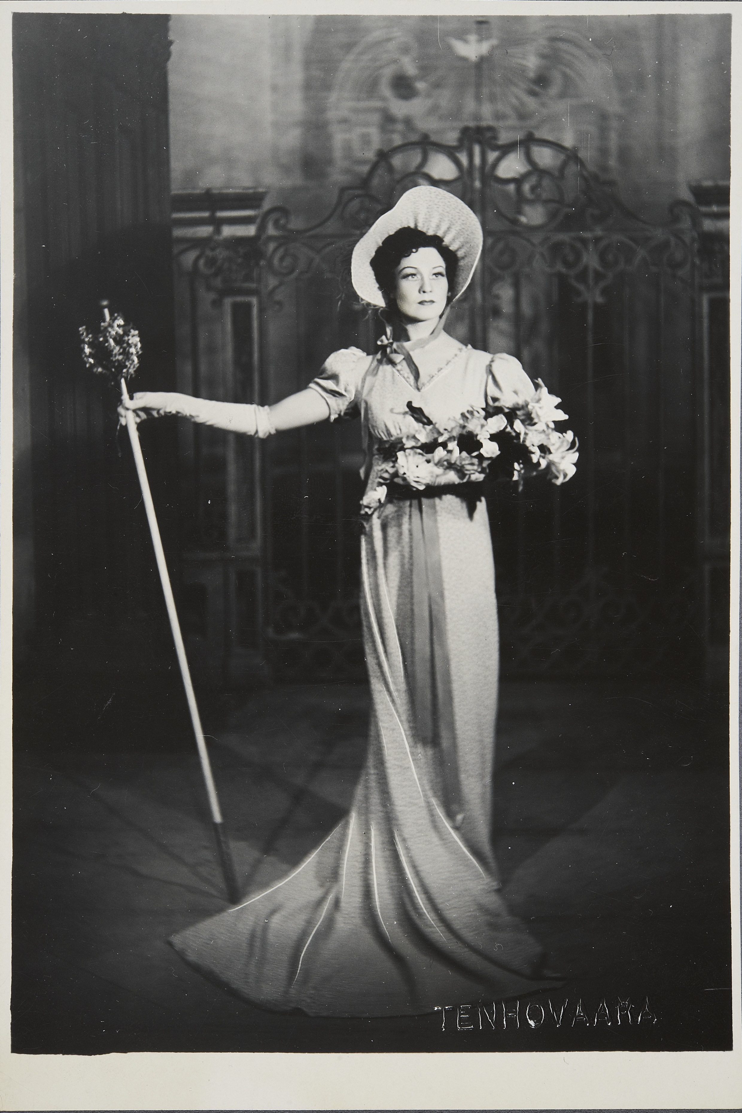 Finnish opera singer Elli Pihlaja in the 1920s or 1930s